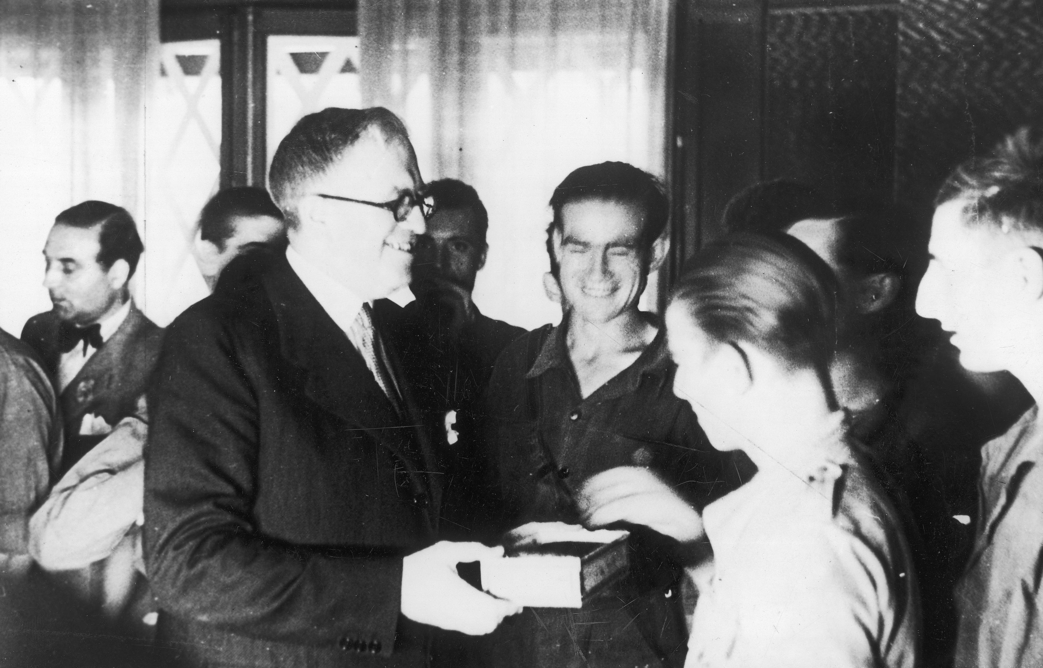 Julio Alvarez del Vayo y Olloqui treats cigars to soldiers who distinguished themselves in the Battle of the Ebro.